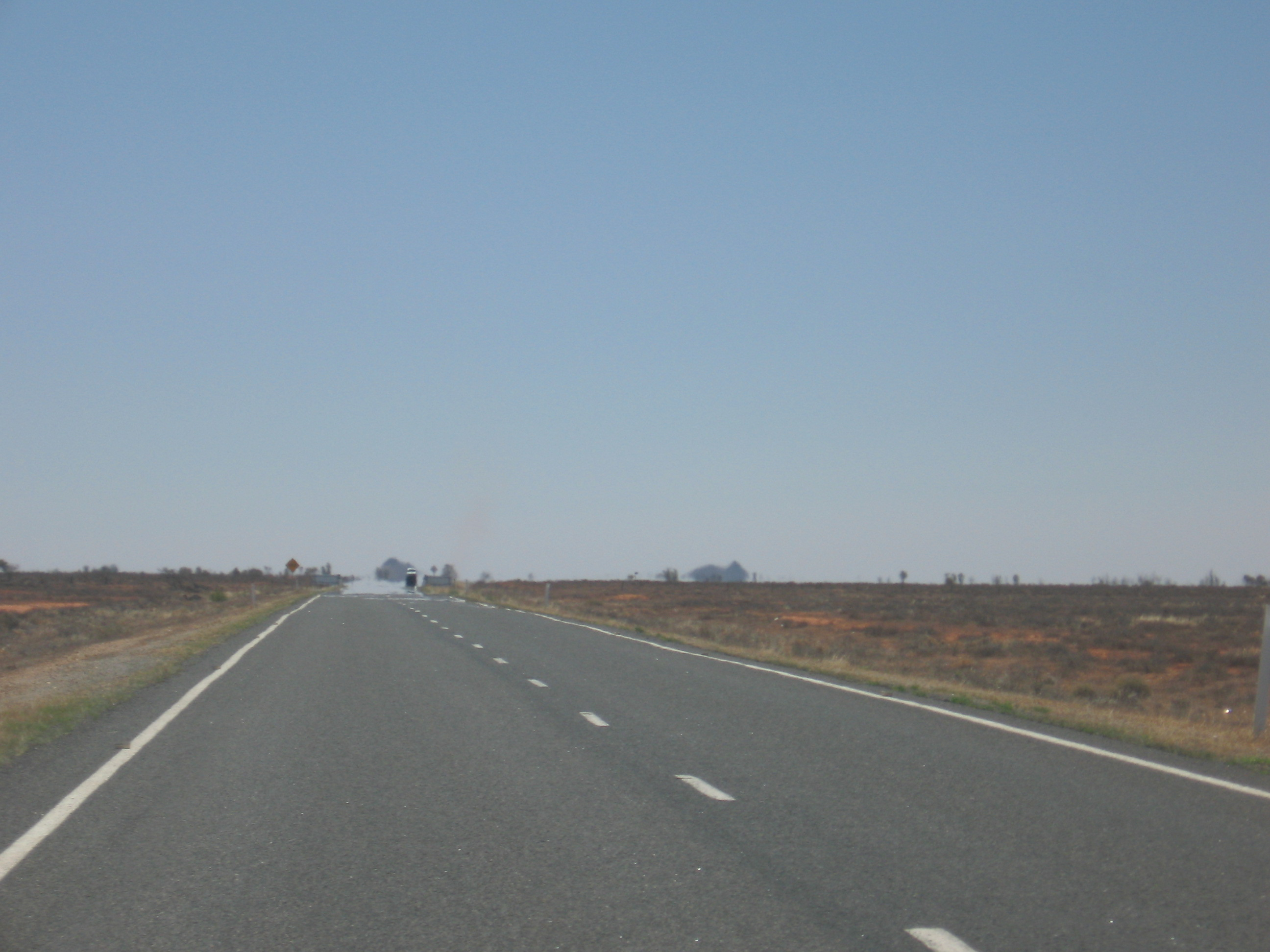 Fata Morgana, Mallee Highway, Victoria Australia